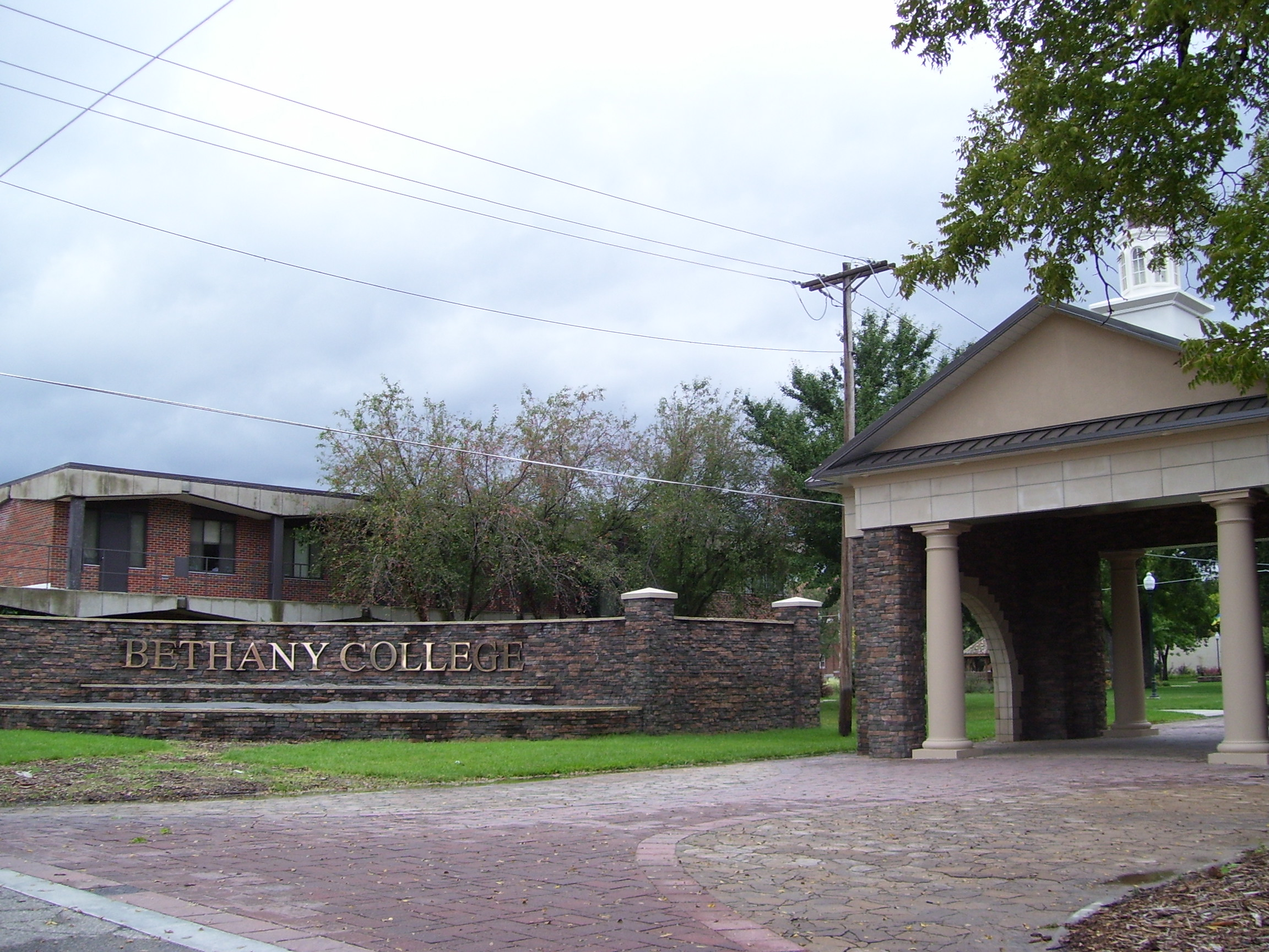 This is my 2008 photo of Bethany College in Lindsborg, Kansas.